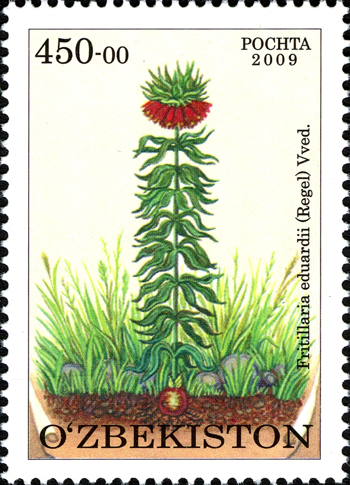 Stamps of Uzbekistan, 2010